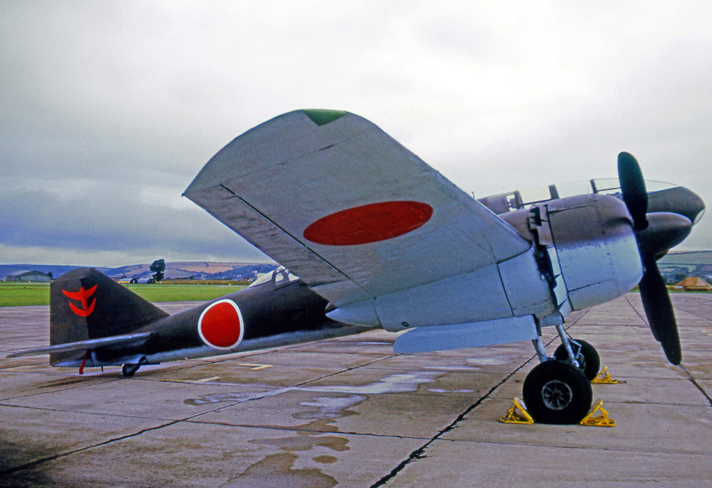 Mitsubishi Ki-46-III Dinah of the Japonese Air Force preserved in the UK